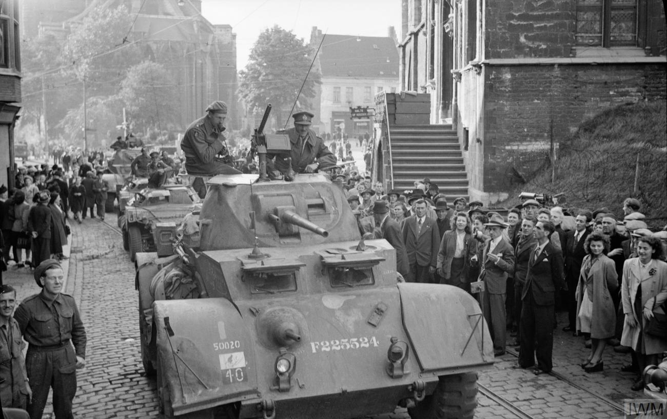 The British Army in North-west Europe 1944-45 Major General G L Verney, GOC 7th Armoured Division, enters Ghent in his Staghound armoured car, 8 September 1944.